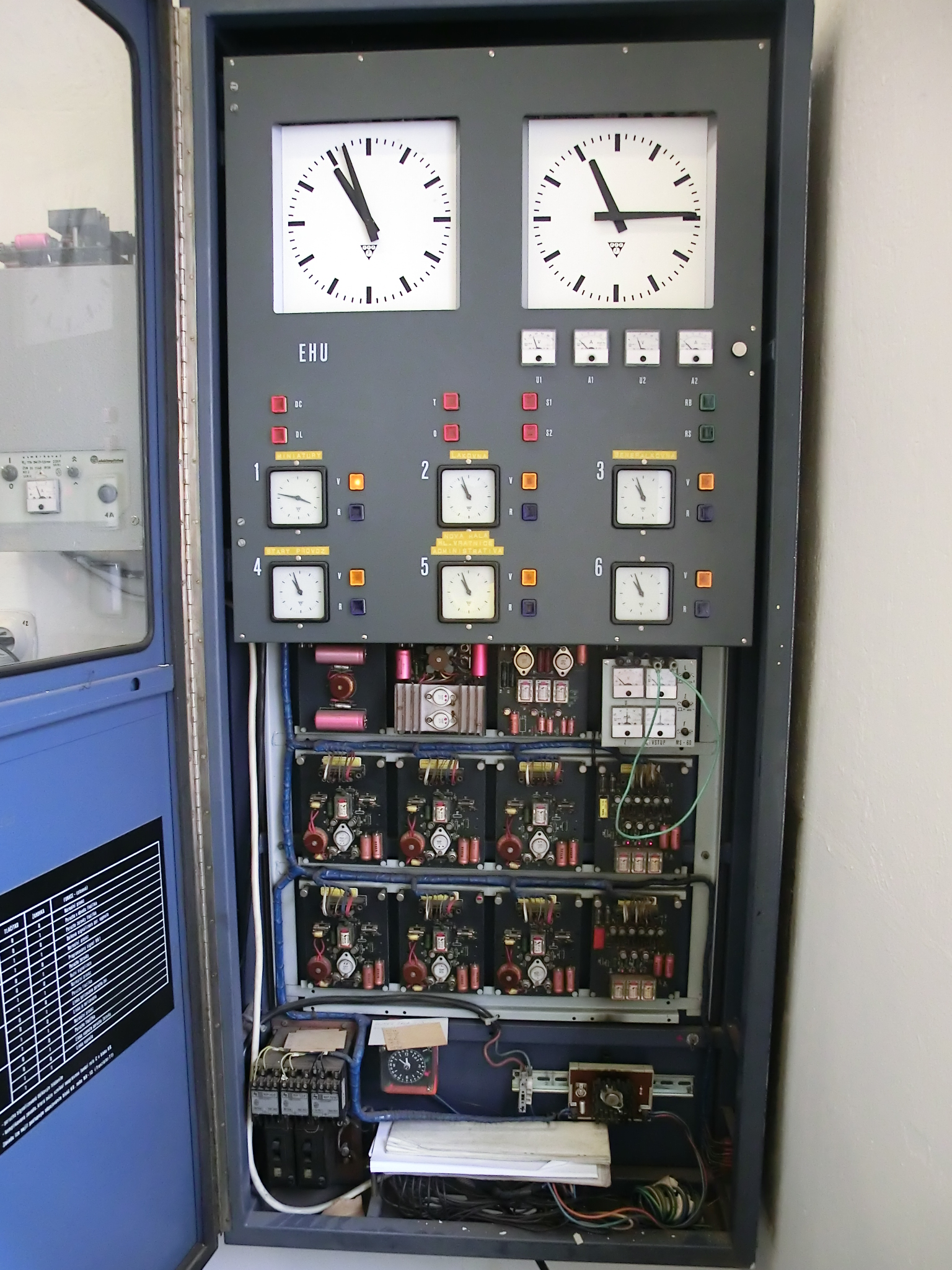 Pragotron EHU 0624 - electrical clock switchboard for central time control for tens of sleeve clocks in the factory area.